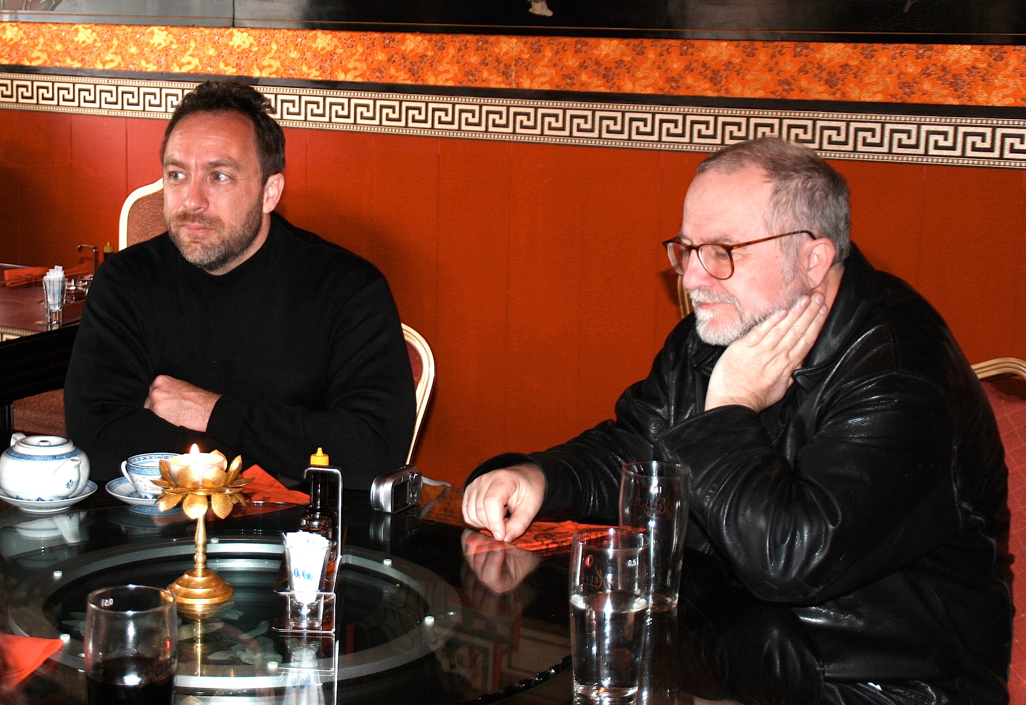 Photo: Holly Hui